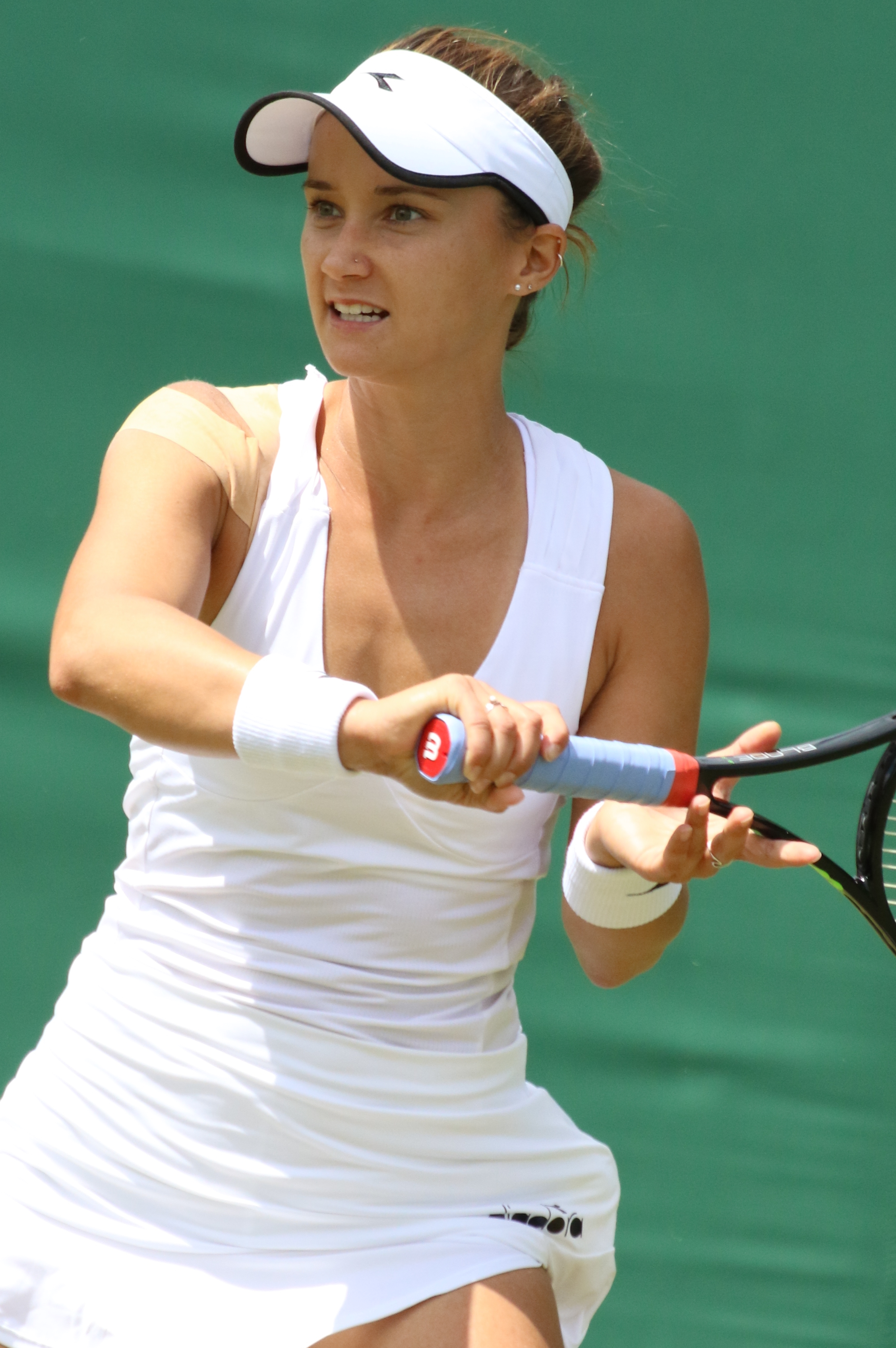 Davis WM19 (11)